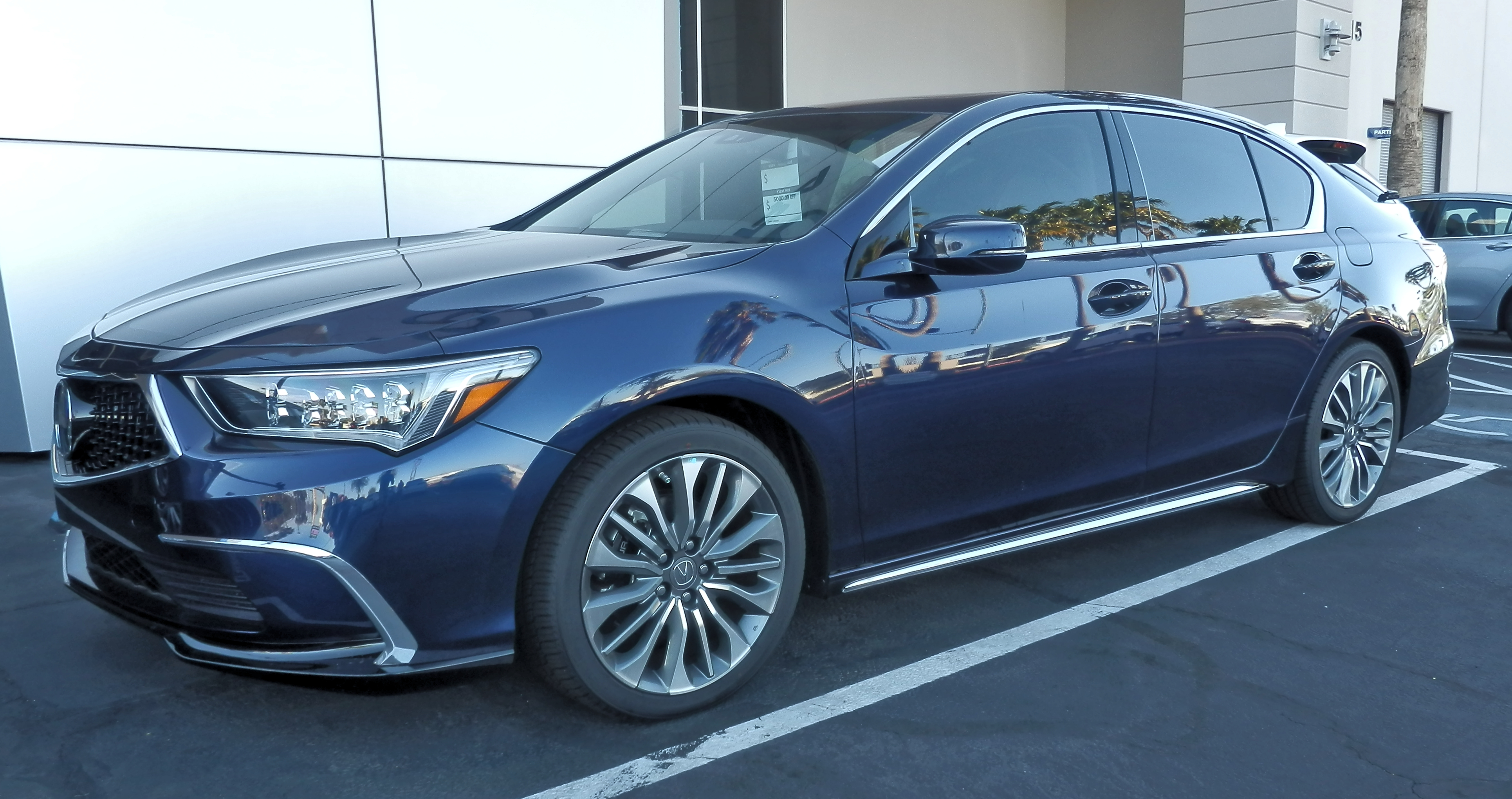 Acura RLX in Las Vegas